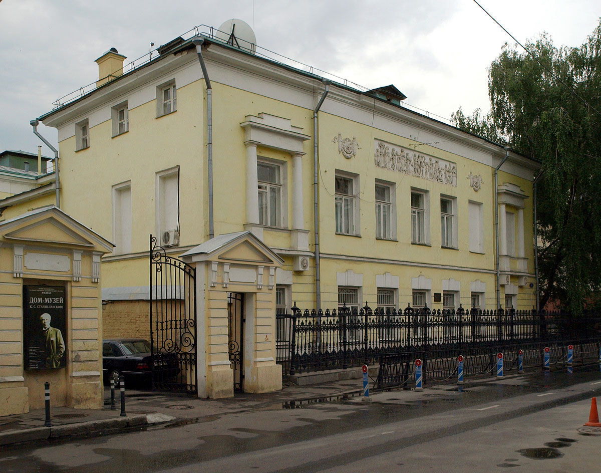 Embassy of Greece in Moscow (Leontyevsky Lane, 4). Built in the middle of 18th century, present-day facades rebuilt in 1817-1823. The main facade actually faces not the street, but the side courtyard (to the right).